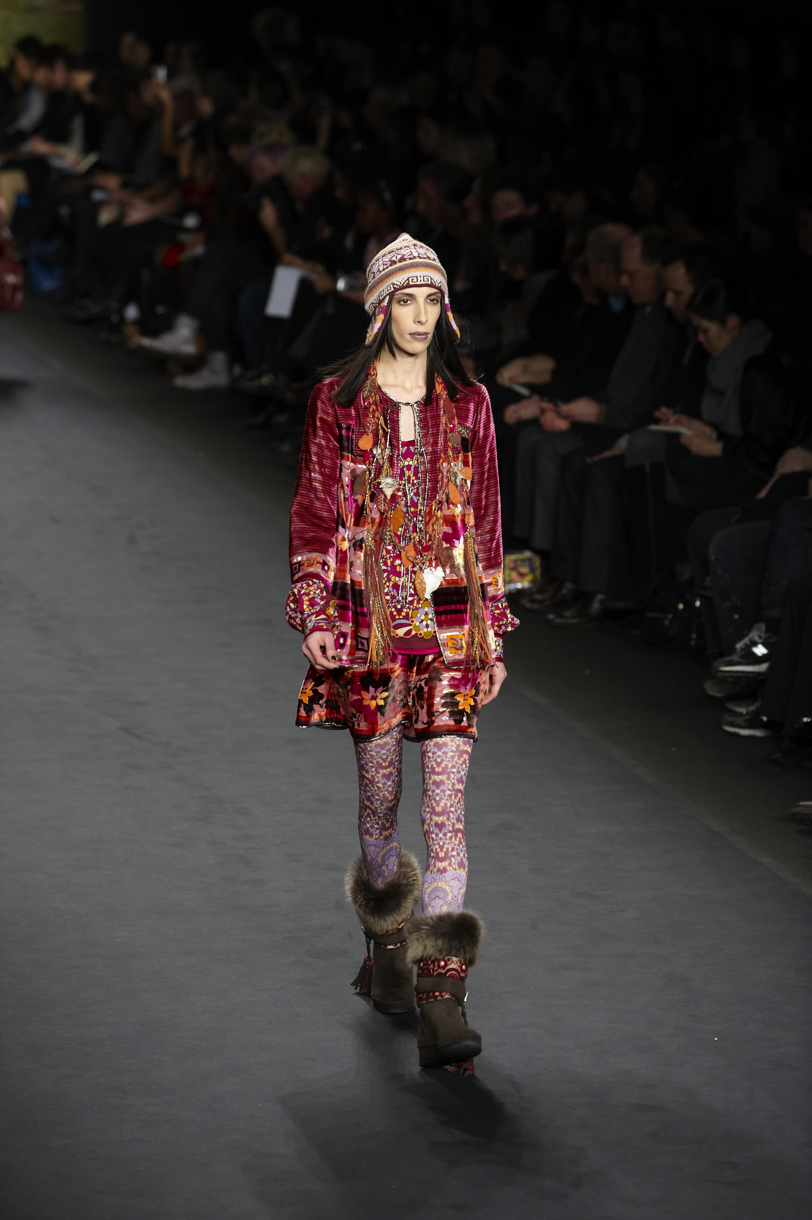 A model walks the runway at the Anna Sui Fall/Winter 2010 show at New York Fashion Week, February 2010.